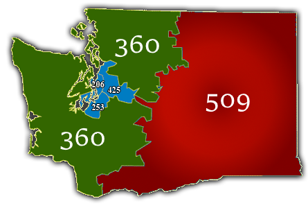 Area code 509 of Washington state.